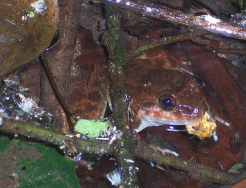 Limnonectes kuhlii under creek debris, from Jabranti, Kuningan, West Java, Indonesia